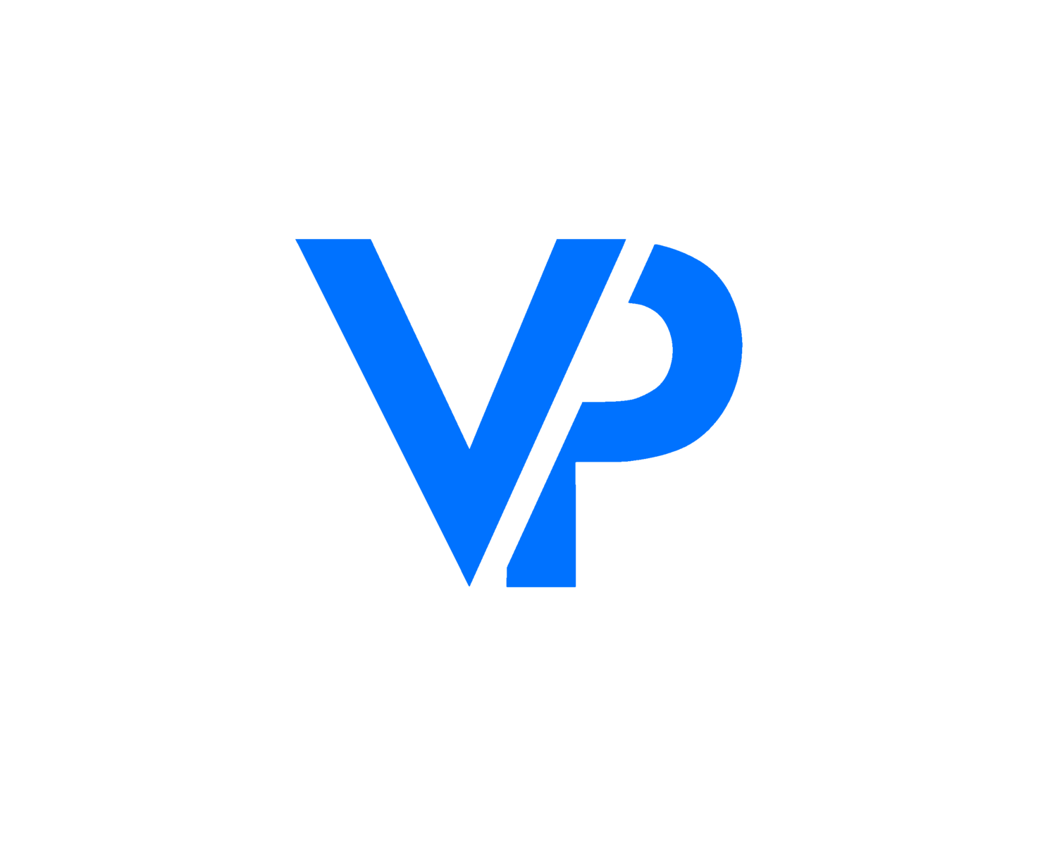 This is the current (2018) BYU Vocal Point logo, depicting the V and P.